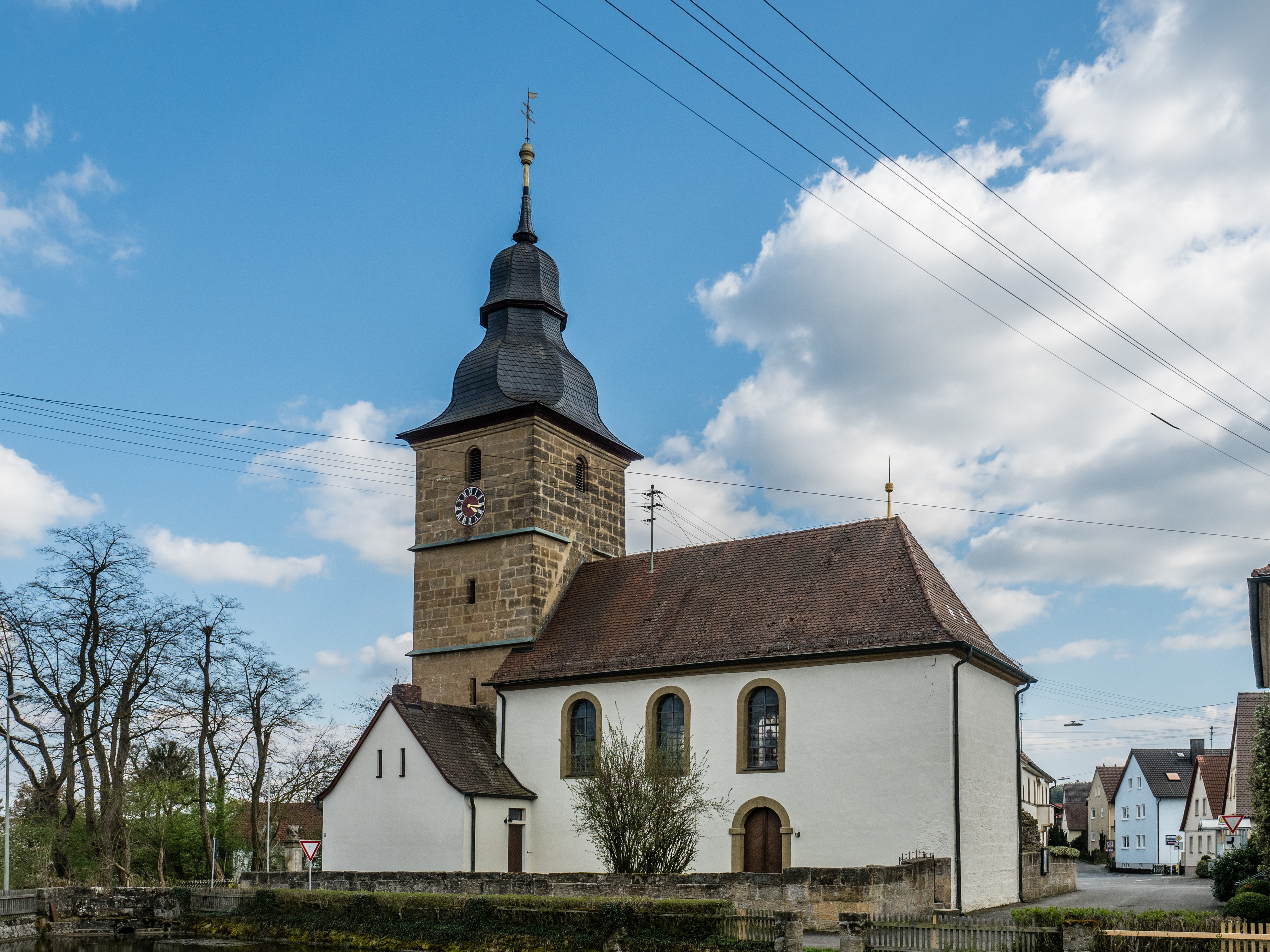 Catholic Parish of the Assumption in PautzfeldThis is a photograph of an architectural monument.